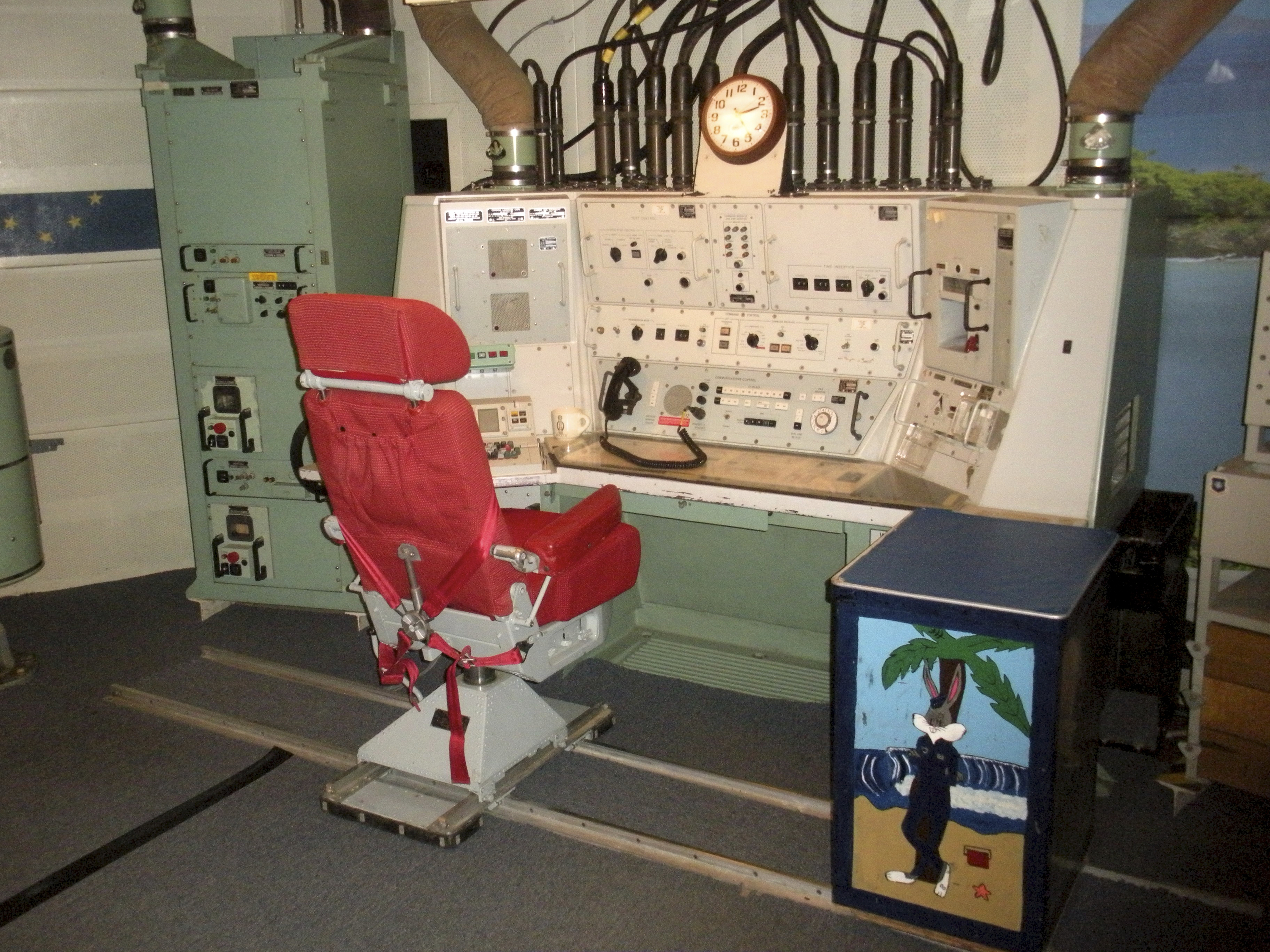 Minuteman ICBM launch control station 60' underground within the "Oscar-Zero" Missile Alert Facility outside of Cooperstown, ND. This facility was deactivated in 1997.